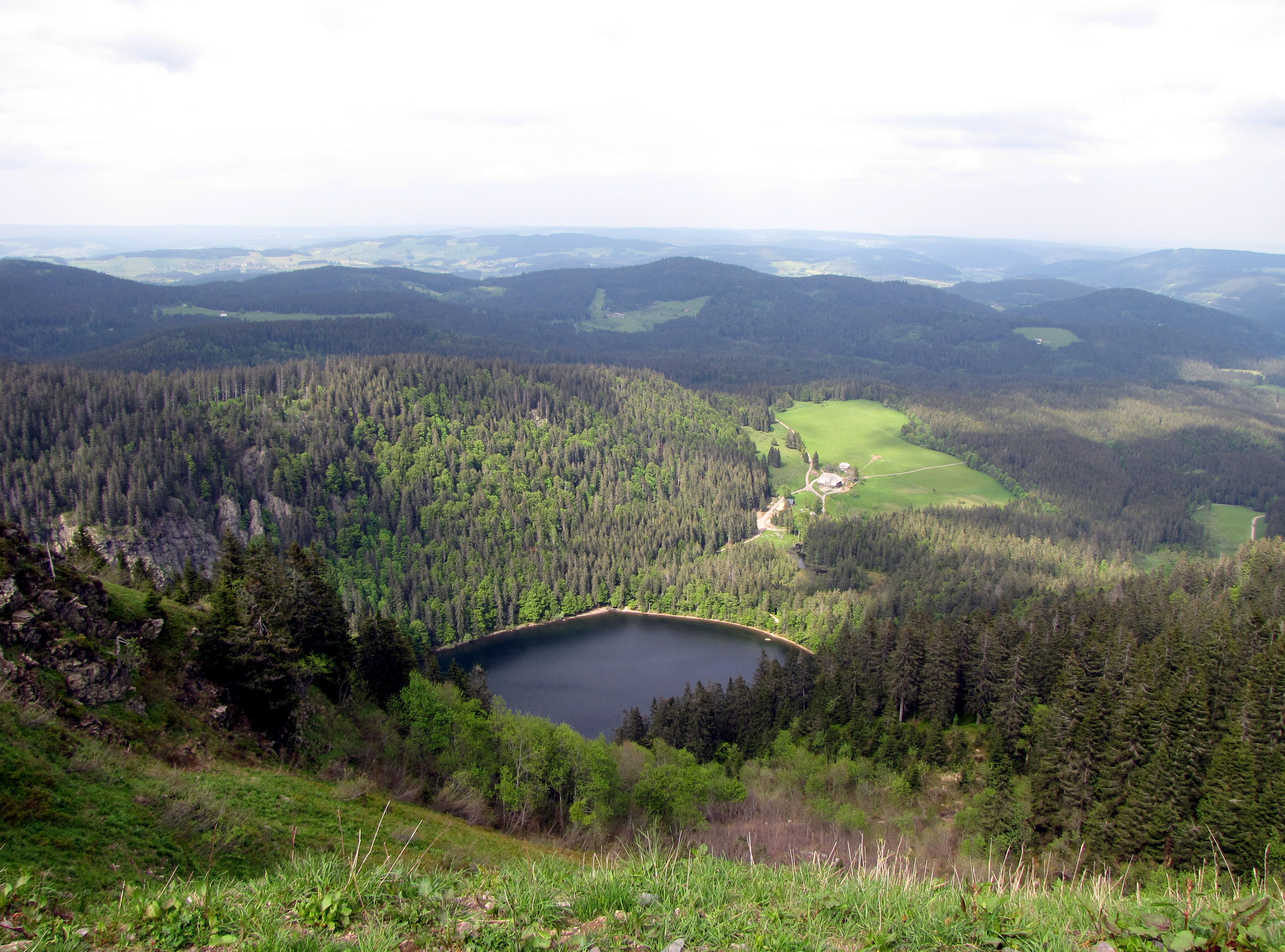 Germany / Black Forest: Feldsee seen from Mountain Seebuck (near Feldberg)